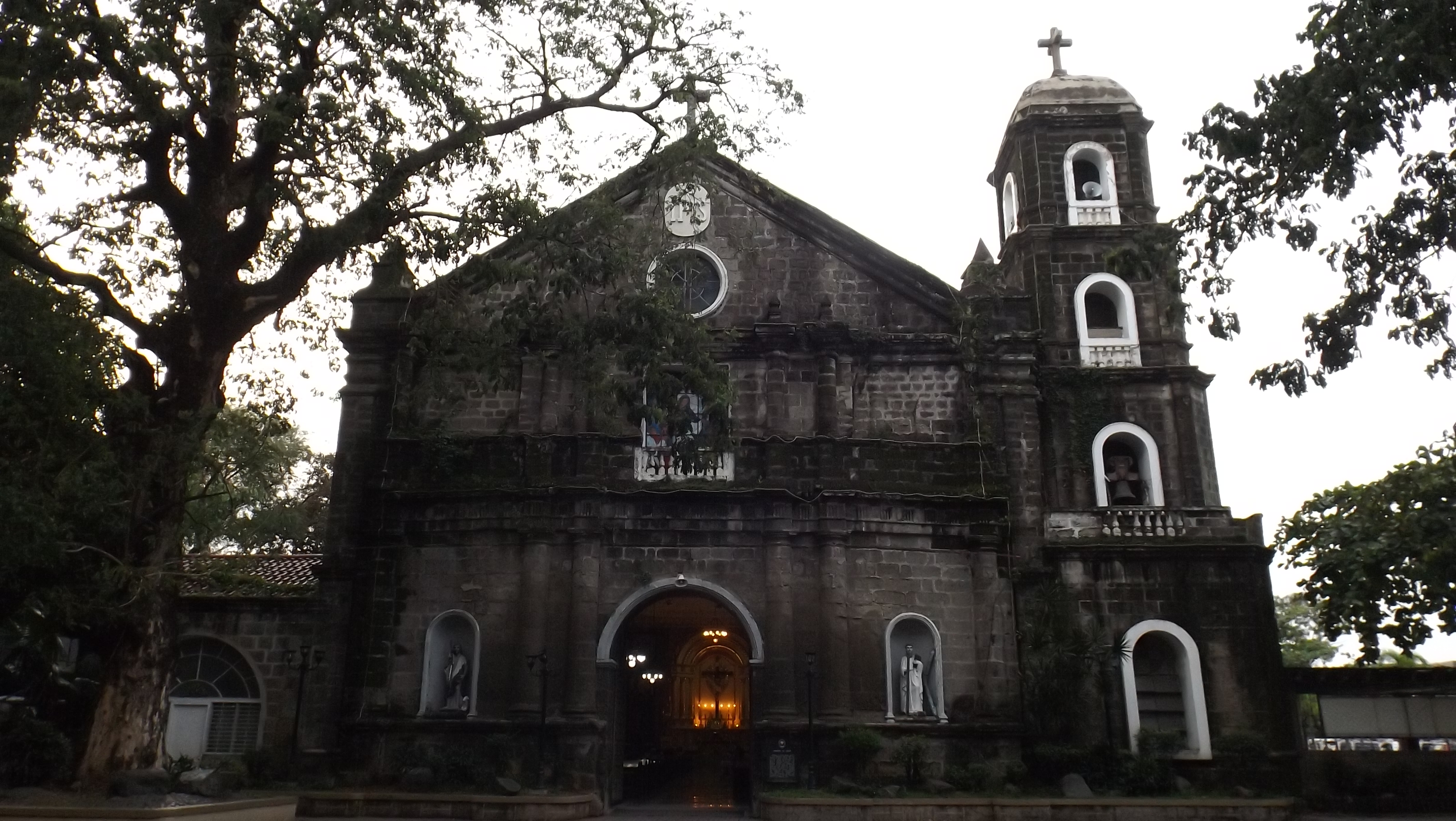 Church Facade